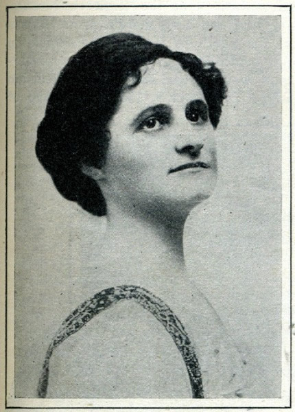 Portrait of Eva McCall Hamilton that appeared in The Independent on October 23, 1920.